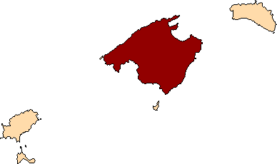 Location of Mallorca